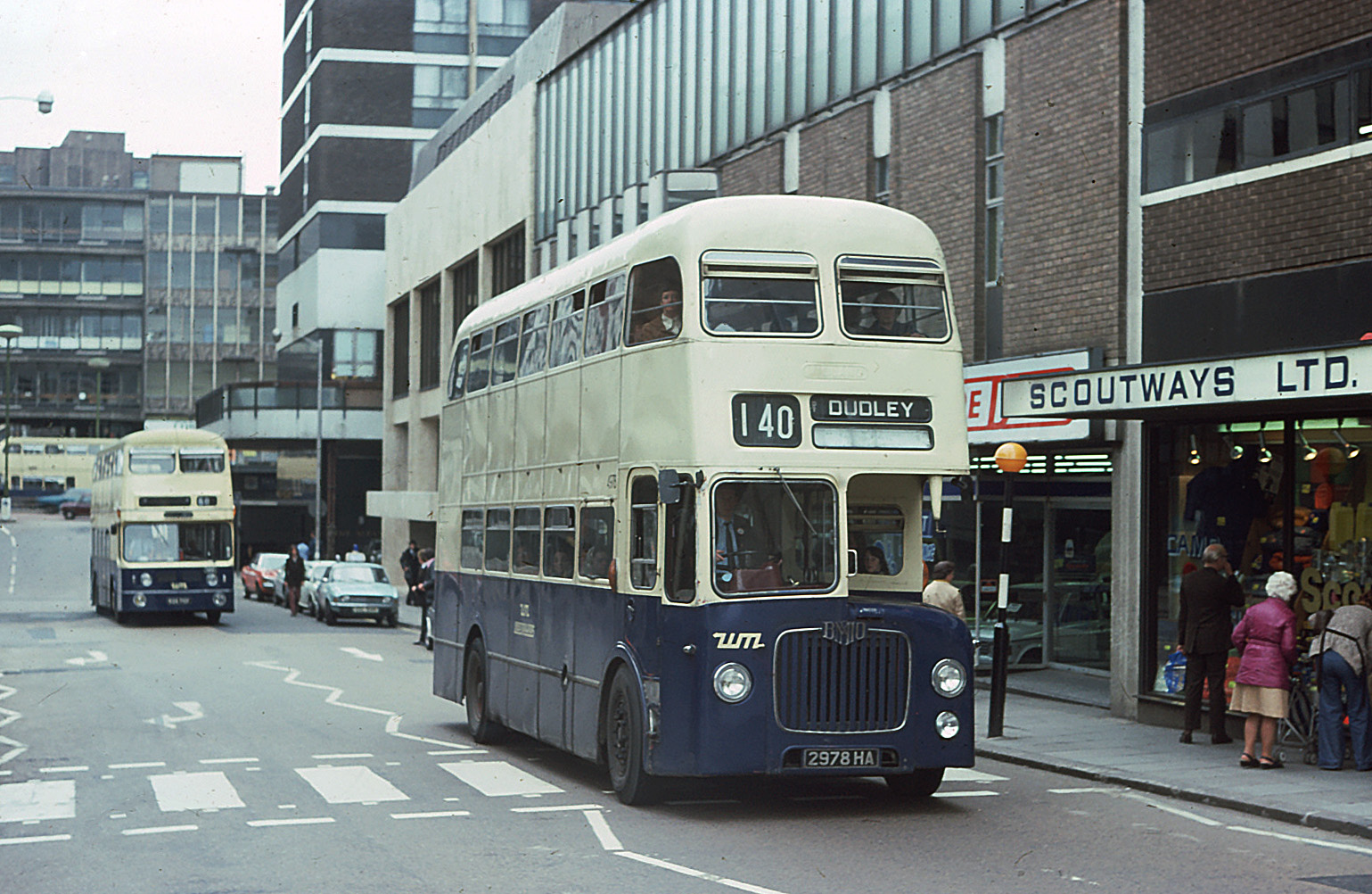 Hill Street West Midlands Passenger Transport Executive buses climb Hill Street. The scene has changed little since 1975, only the car showroom directly behind the bus has been demolished - fittingly it is currently a car park. The shop housing scoutways remains, as does the cream building behind the bus. The building with the Balcony is a Holiday Inn. The buildings at the end of the street are on Smallbrook Queensway. The closest bus is a BMMO D9, built for Midland Red and passed to WMPTE when they took over the Midland Red city services. It was withdrawn in 1976.